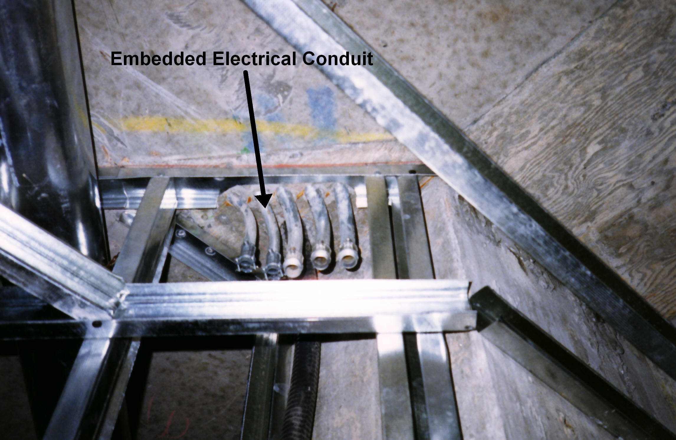 Electrical conduit cast into concrete for distribution of cables in a highrise apartment building, Mississauga, Ontario, Canada.